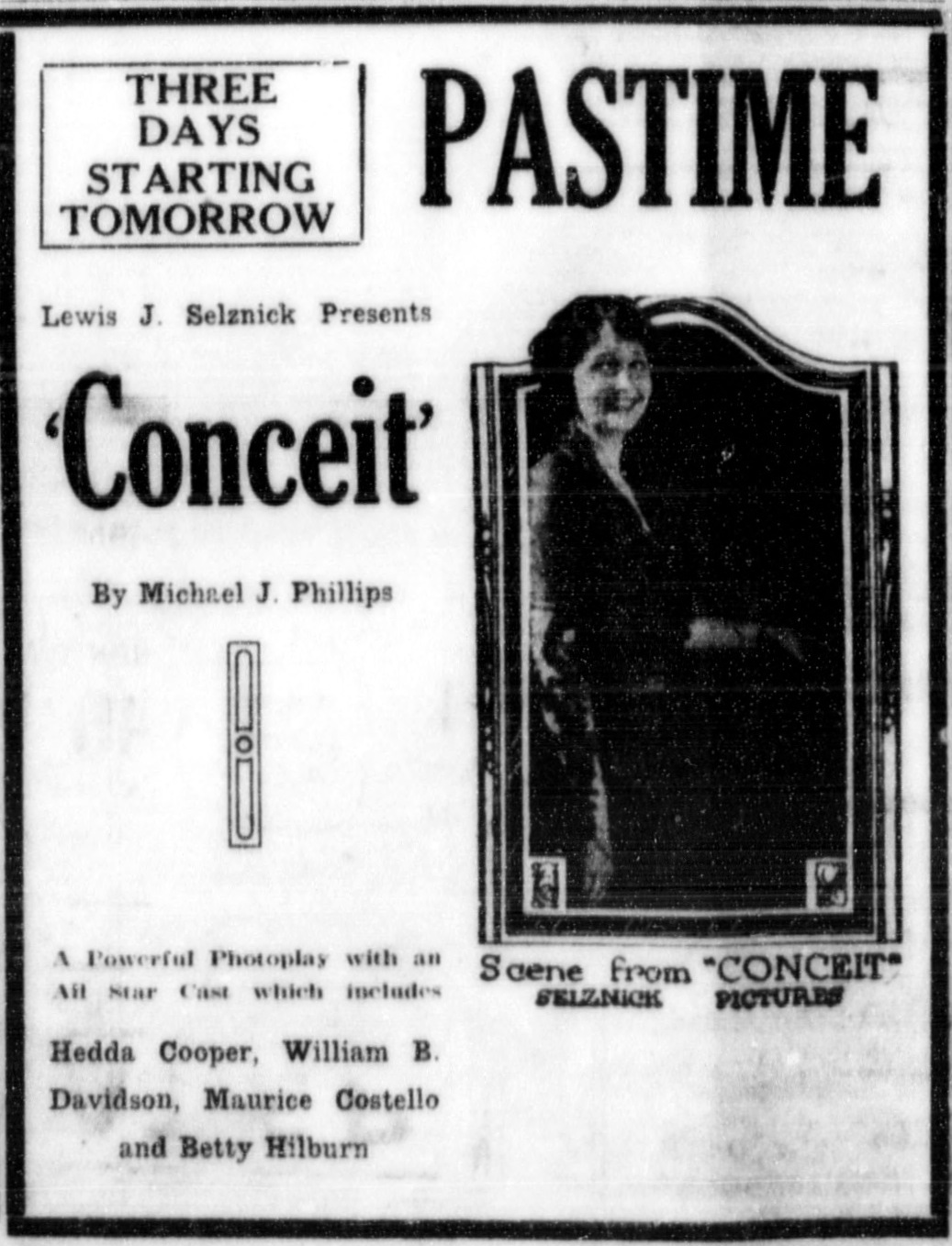 Conceit (1921) is a silent drama film produced and released by Selznick Pictures Corporation. It is a lost film. This is a newspaper advertisement for the film. The ad misspells actress Hedda Hopper's name as Hedda Cooper.